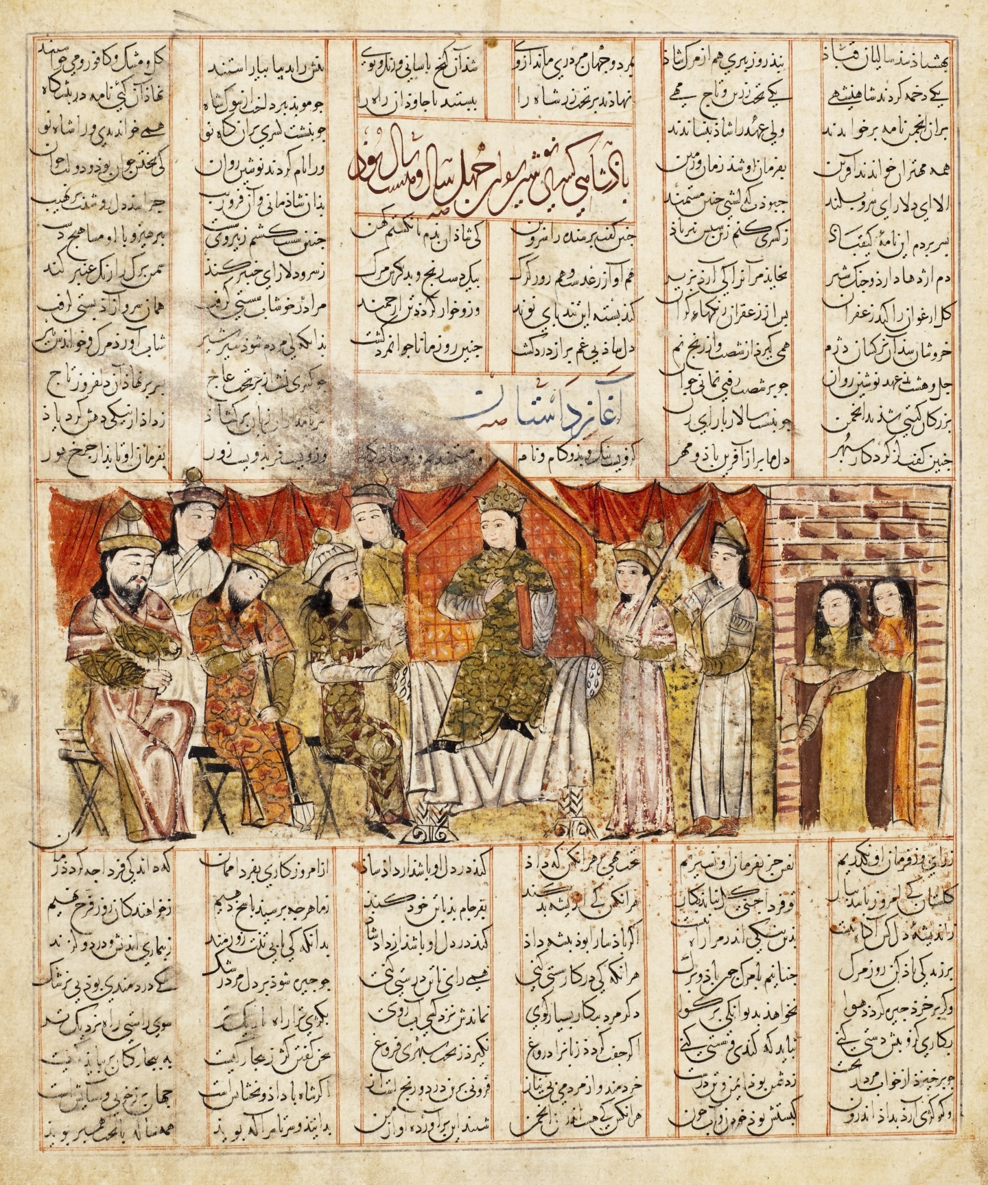 Iran, probably Shiraz, 741 A.H. (A.D. 1341) Manuscripts Ink, opaque watercolor, and gold on paper The Nasli M. Heeramaneck Collection, gift of Joan Palevsky (M.73.5.18) Islamic Art